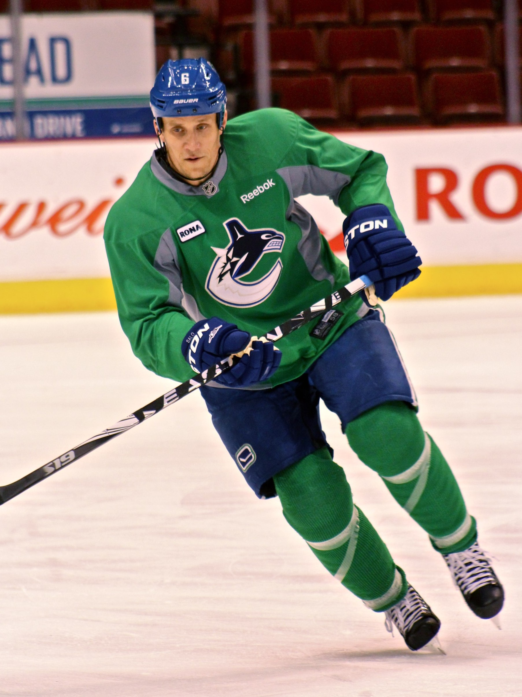 Vancouver Canucks defenceman Sami Salo during a practice on March 9, 2012.